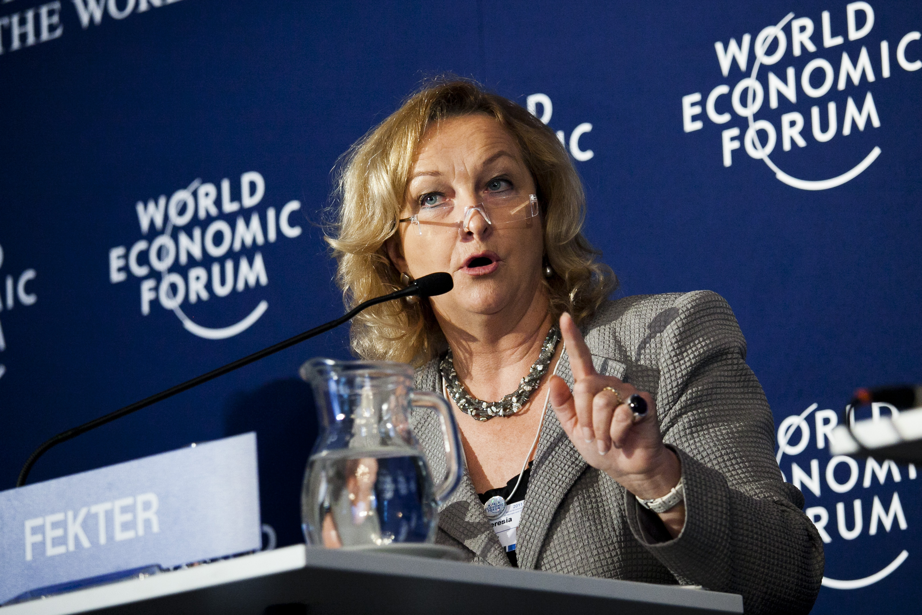 VIENNA/AUSTRIA, 9JUN11 - Maria Theresia Fekter, Minister of Finance of Austria at the World Economic Forum on Europe and Central Asia held in Vienna, Austria, June 9, 2011. Copyright World Economic Forum ( by Heinz Tesarek